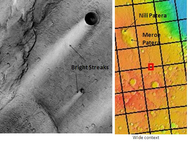 Bright Streaks in Syrtis Major, as seen by themis. The location is 0 degrees north latitude and 288.1 degrees west longitude. Picture taken with Mars Odyssey's THEMIS. Photo credit NASA/JPL/ASU.